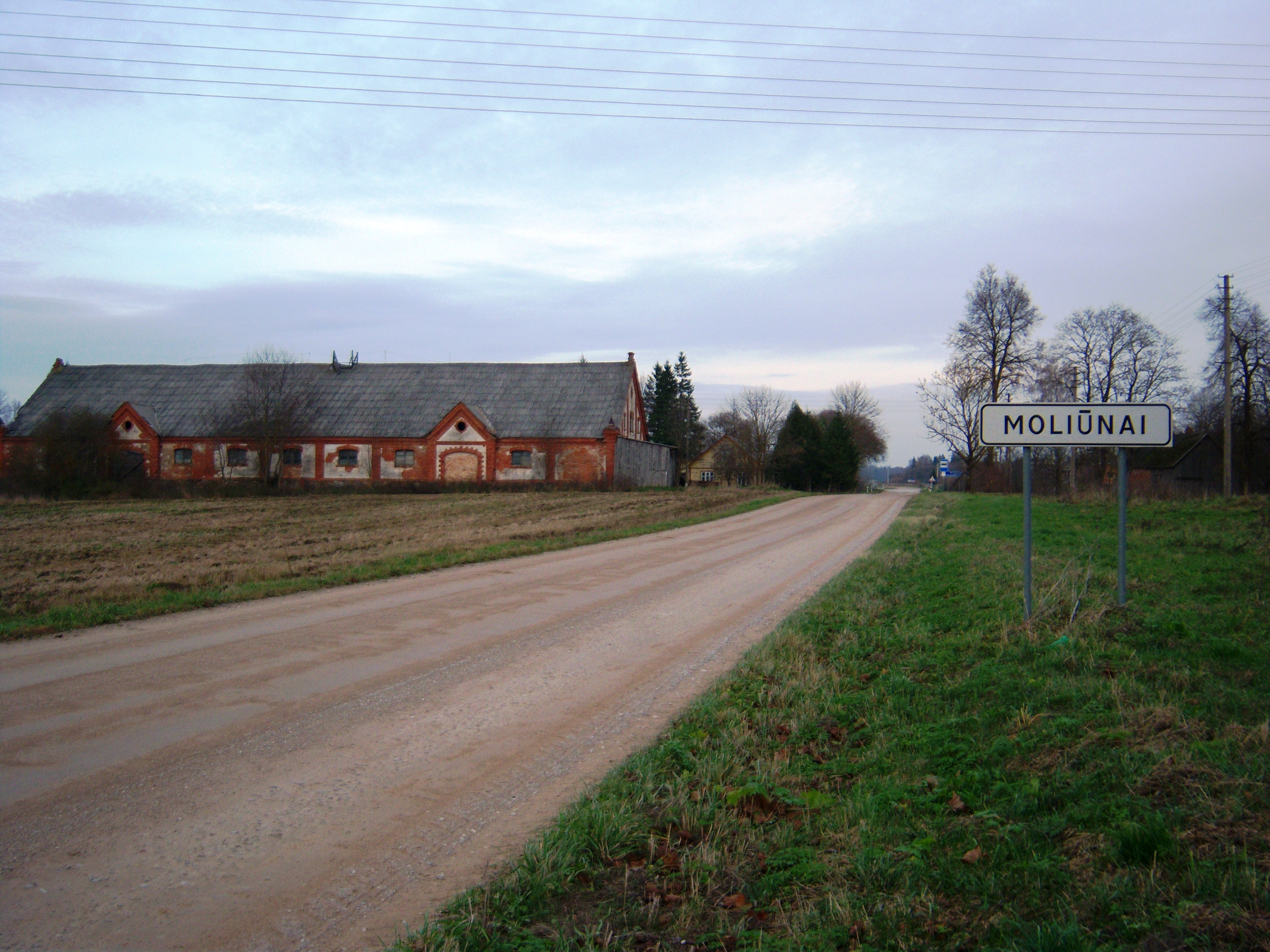 Moliūnai, Pasvalys District, Lithuania